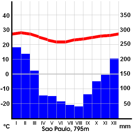 Rainfall and average max. temperature for Sao Paulo, Brazil. °Celsisus and millimeters. Software: Data